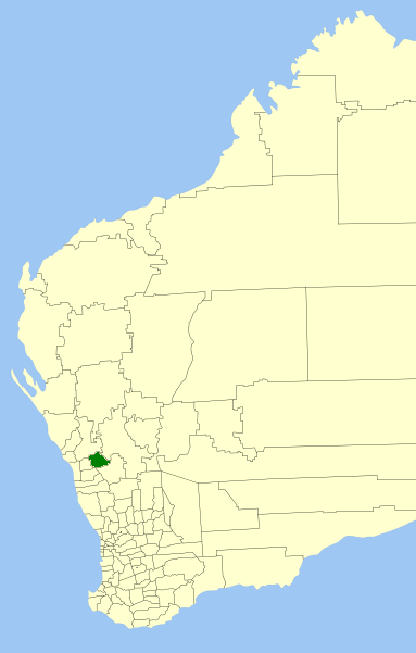 Description=Location of the Local Government Area in Western Australia